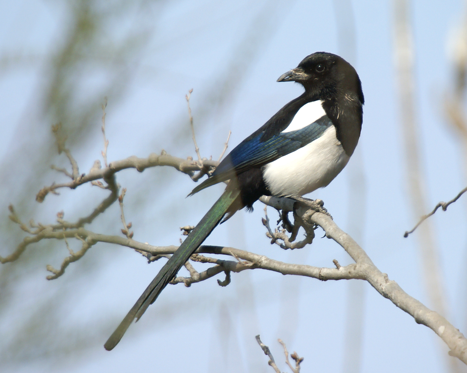 European Magpie (Pica pica) in Alicante, Spain.